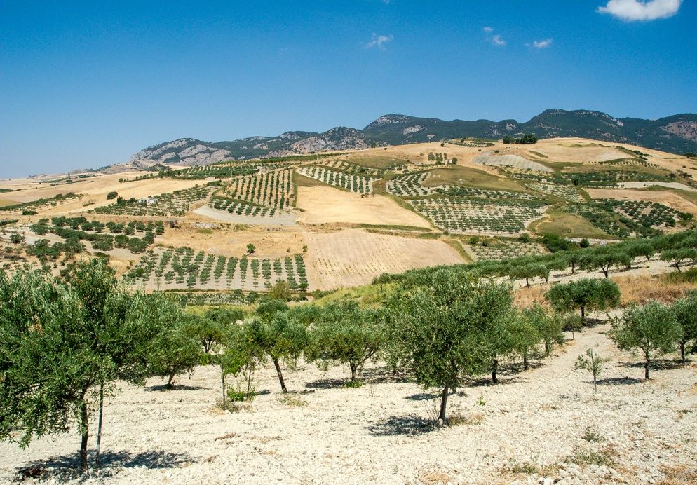 Corleone